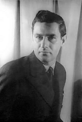 Italian-American composer Gian Carlo Menotti. LGBT composer of opera.